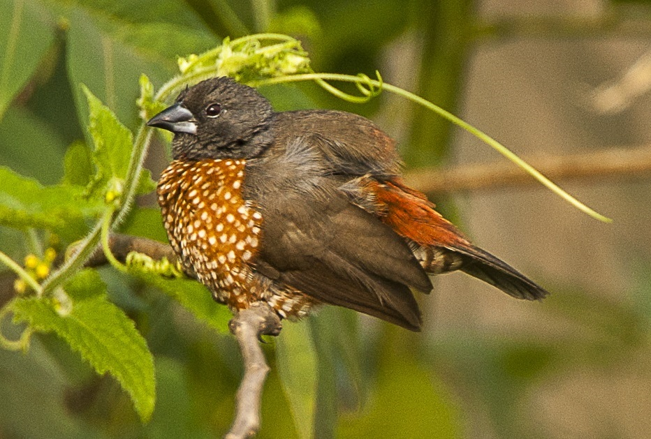 Brown Twinspot - Budongo - Uganda 06_4823